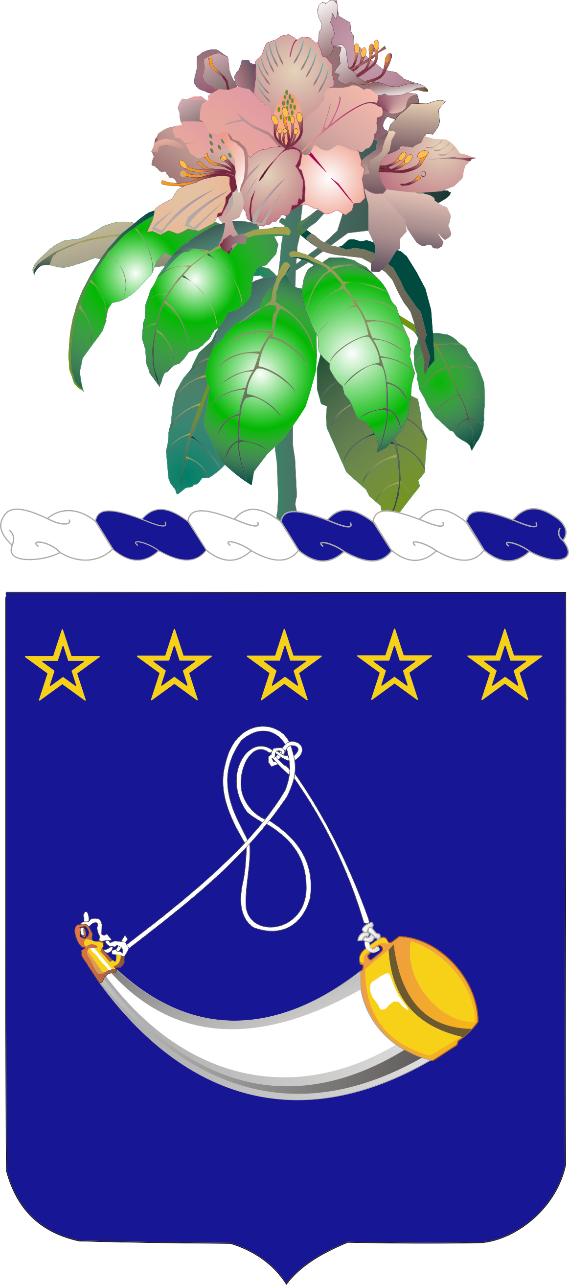 150th Armor Regiment coat of arms